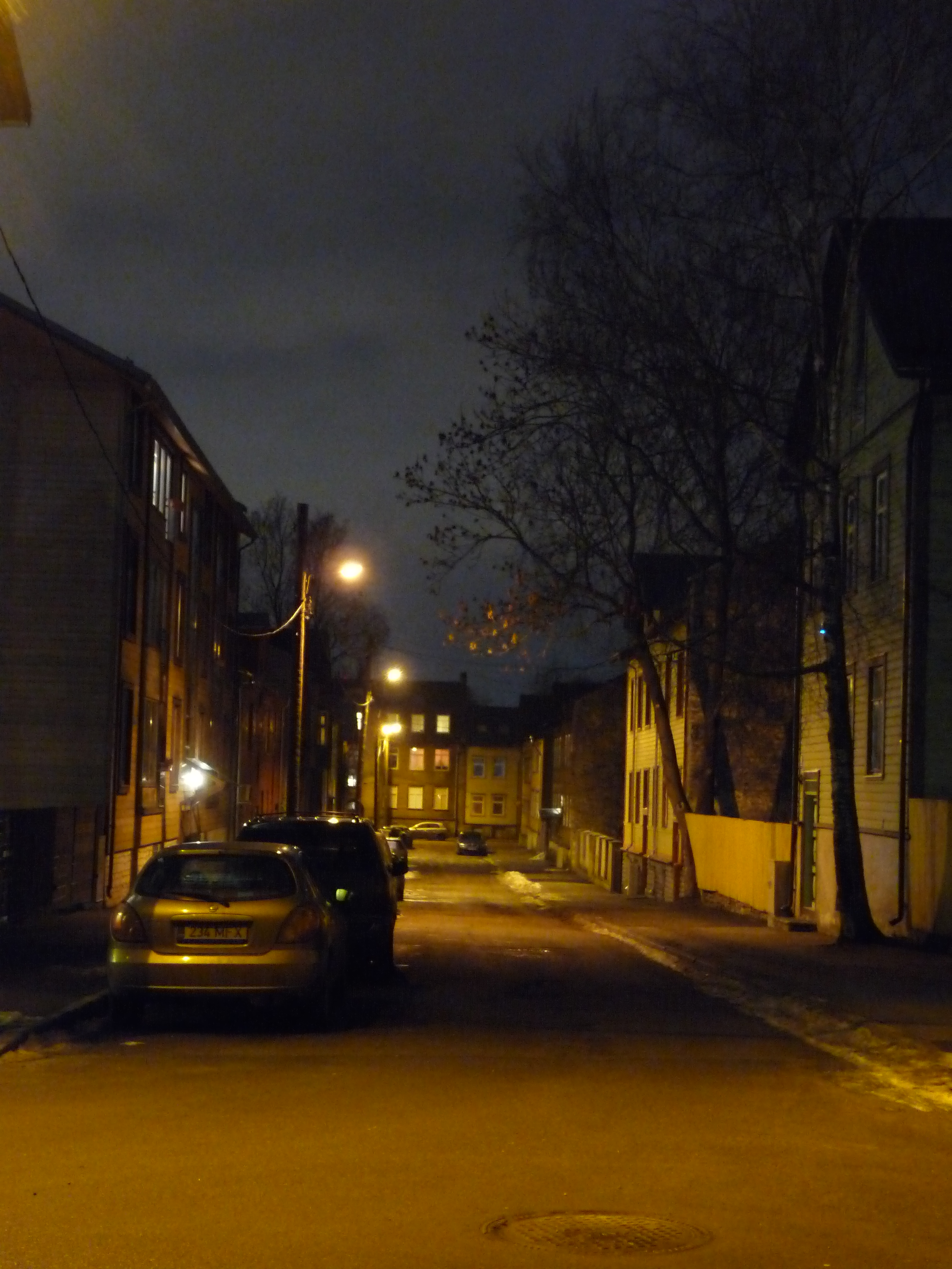 Pebre street in Tallinn, Estonia